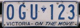 General issue vehicle registration plate of Victoria, Australia. This particular registration plate has the combination OGU-123, first registered 17 April 1997 as per VicRoads. This plate is of standard size and incorporates the slogan "Victoria – On the Move" as issued from September 1994 starting at NAA-000. Vehicle registration enquiry results Jurisdiction Victoria Registration OGU123 Chassis code 6T153AEA20D696525 Engine code 7A9031619 Compliance date 1997-04 Year of manufacture 1997